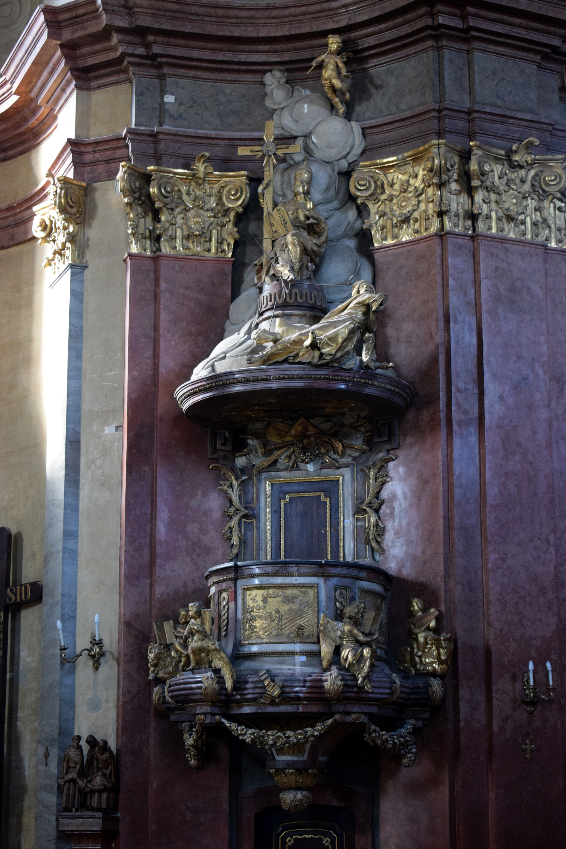 Late Baroque pulpit in the style of Franz Anton Hillebrandt in St Stephen's Cathedral, Székesfehérvár, from the 1770s, red marble, gilt wood sculptures. Iconography: symbols of the tetramorph with angels (ledge); reliefs; the Eye of Providence with horn, violin, wreath and palm branch; dove; allegory of the Church with cross, chalice and tables of the law triumphing over Idolatry; cherub playing on the flute (abat-voix).